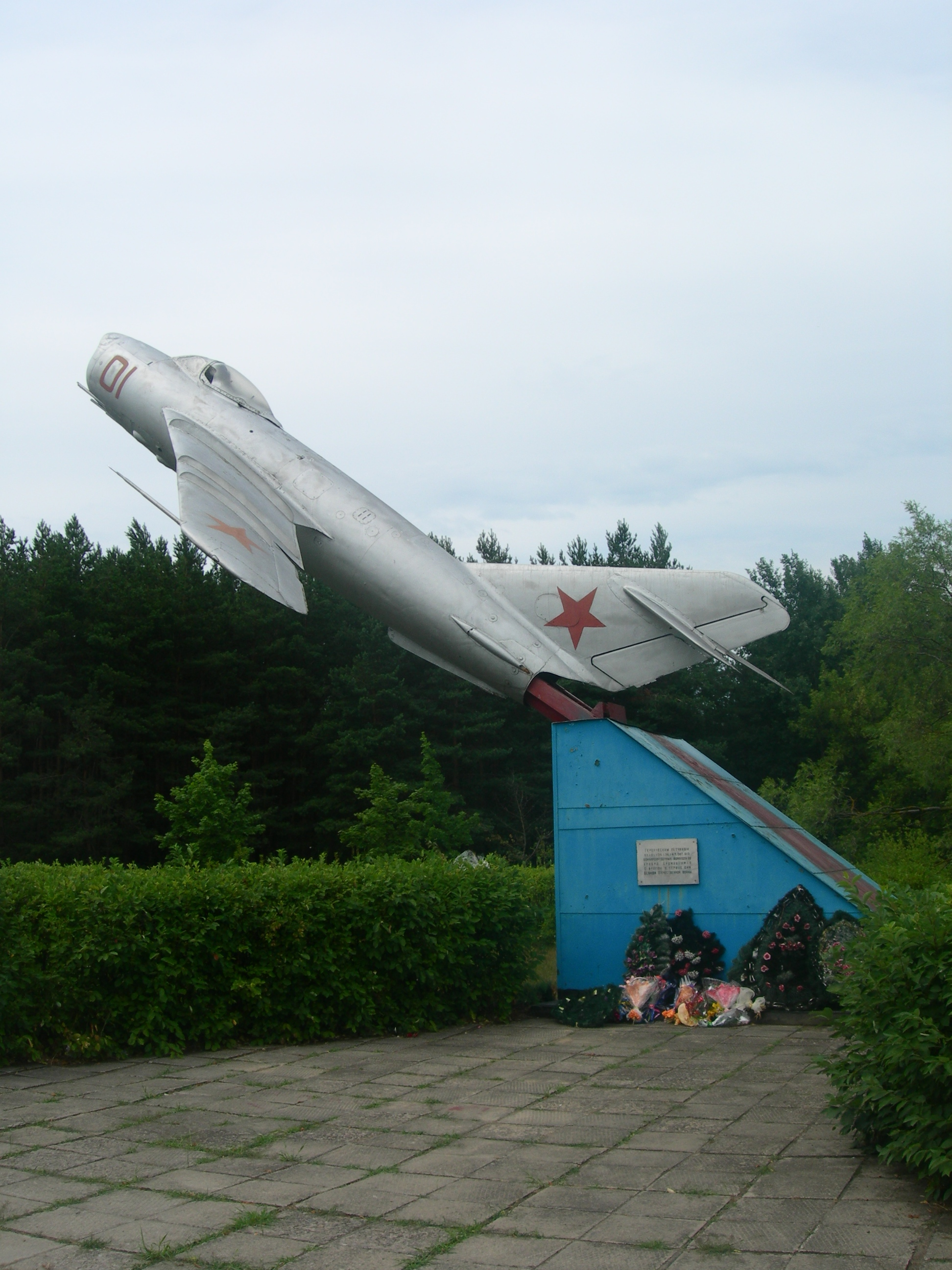 Biaroza: Soviet monument to Red Army military pilots